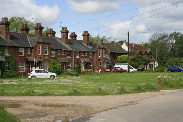 Bickerley Terrace, Ringwood. This terrace forms the northwestern end of The Bickerley. The road visible is Bickerley Road which is a dead end. A plaque on the terrace dates it to 1882.